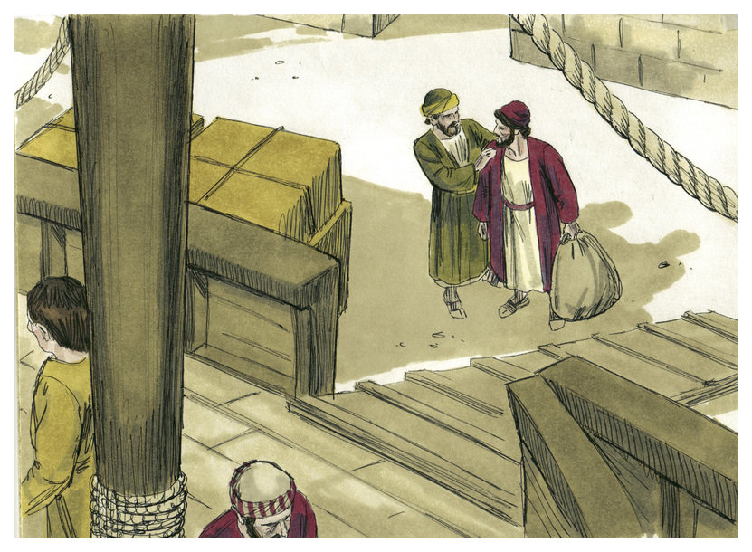 Biblical illustration of First Epistle to Timothy Chapter 1